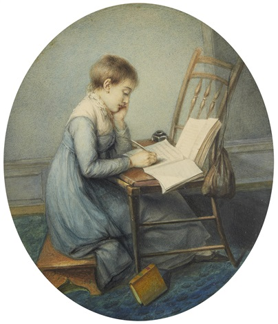 Watercolour portrait of Maria Violet (born 1794), later Maria Brook Pulham, the artist's daughter.